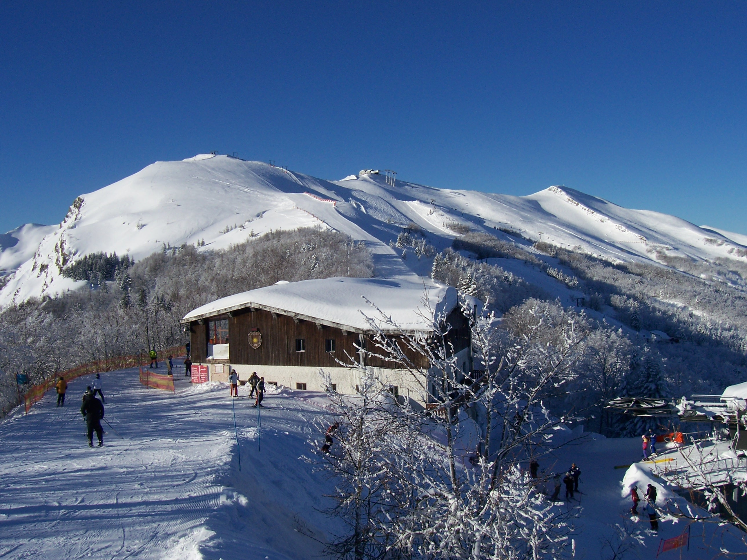 Mont Gomito - near Abetone, Province of Pistoia - Italy